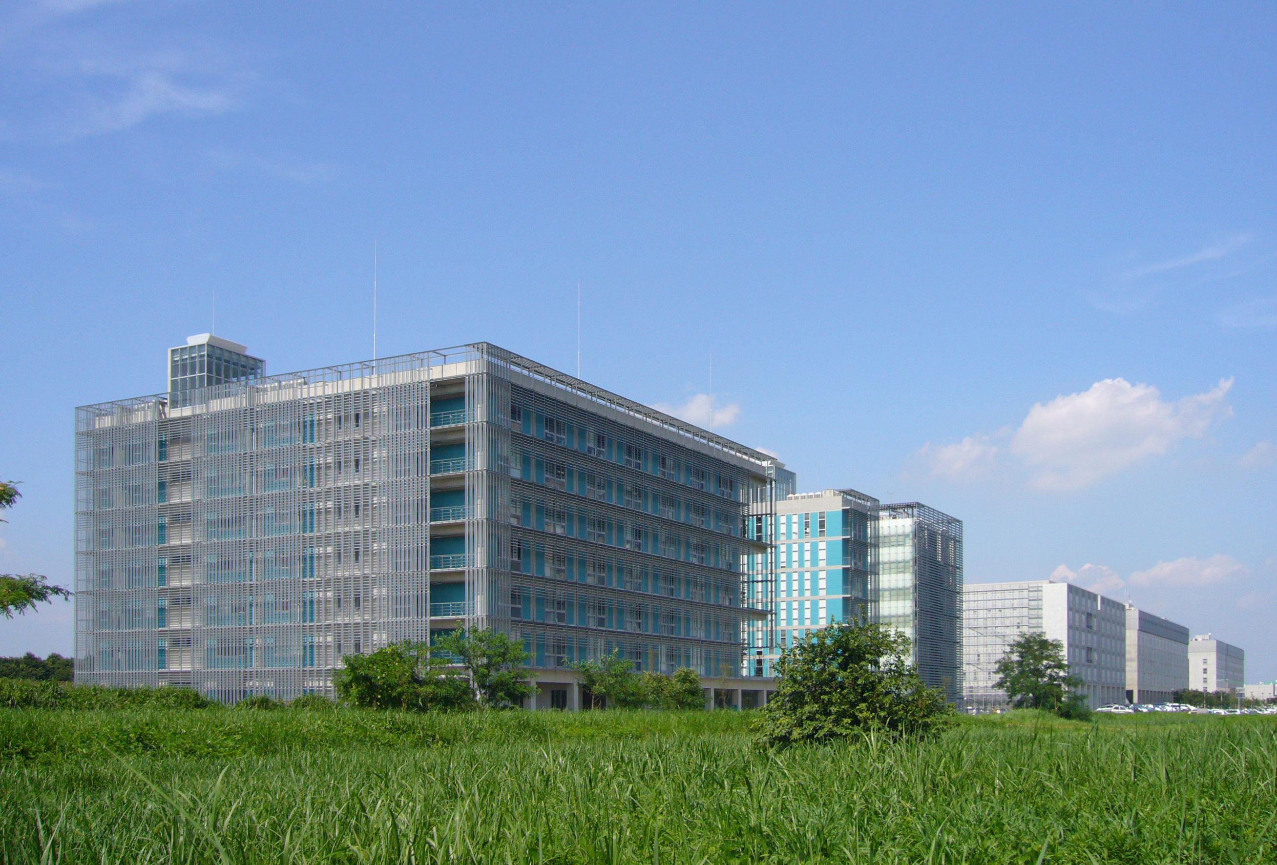 Kashiwa Campus of the University of Tokyo in Chiba, Japan